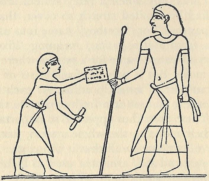 An ancient Egyptian drawing depicting the mail service.